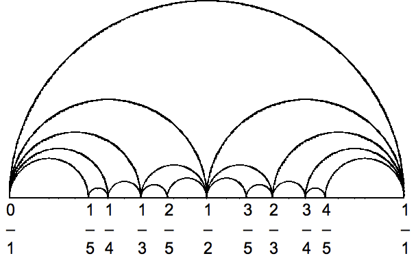 Farey diagram with arcs, order F5. See: [1]